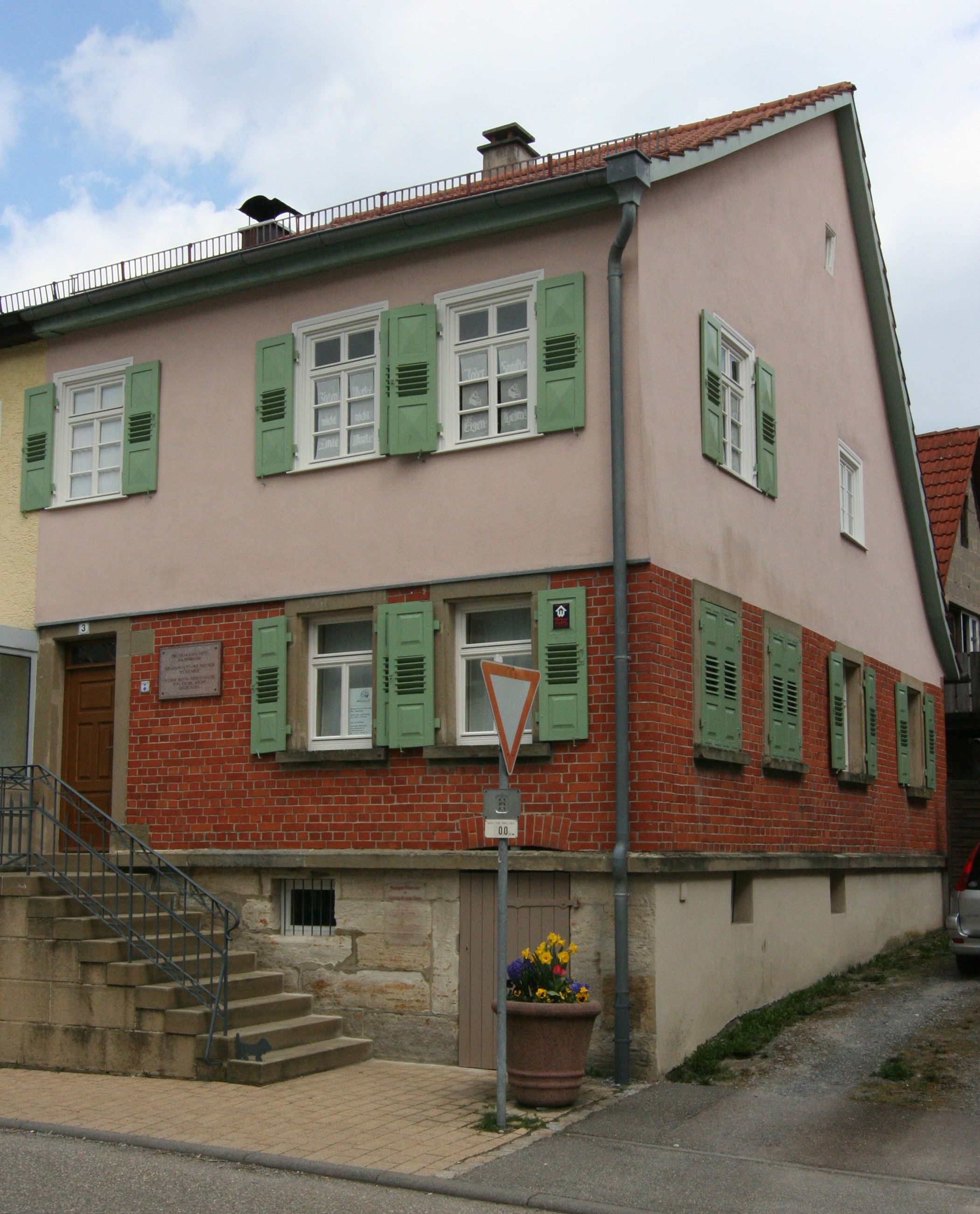 The house Haller Straße 3 in Wüstenrot, a cultural heritage site, place where Georg Kropp's first building society was founded, today a museum